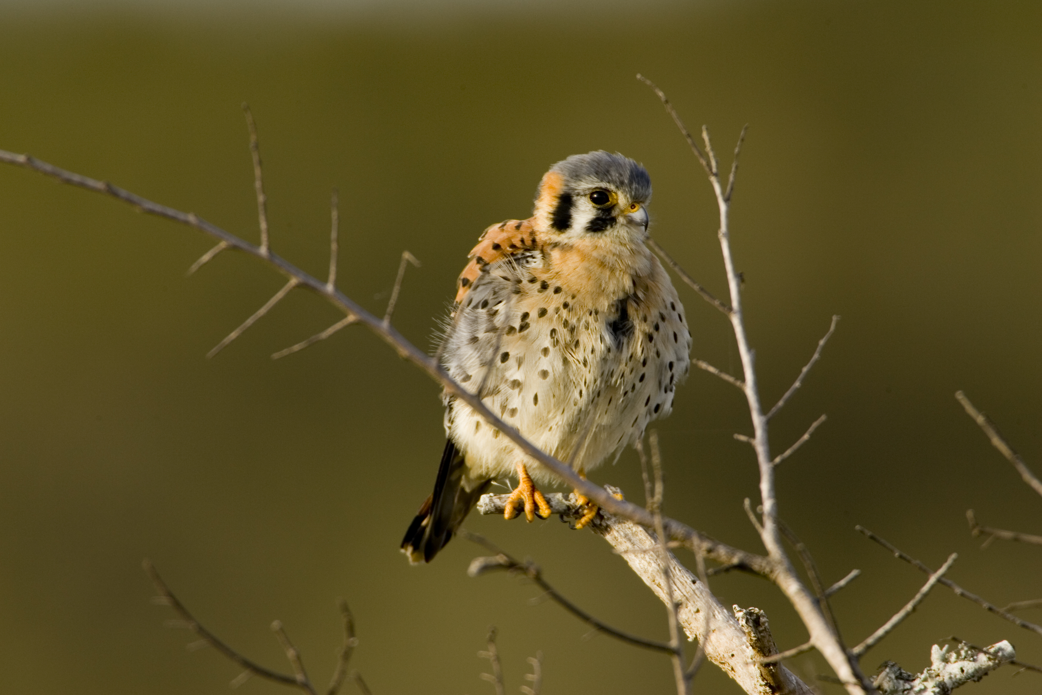 A male American Kestrel (Falco sparverius ). Aransas NWR, Texas, USA.